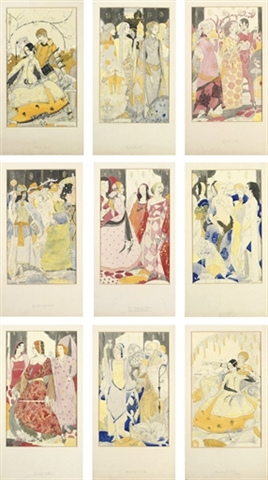 Artist Harry Clarke Title John Millington Synge's poem Queens (9 studies) Medium pencil, ink and watercolor Size 11 x 6.7 in. / 27.9 x 17.1 cm. Year 1917 - Description Harry Clarke, R.H.A. (1889-1931) Nine full-scale preparatory studies for a series of stained glass panels, illustrating John Millington Synge's poem Queens each inscribed on scrolls with the relevant lines from the poem at the foot of each illustration, and at the foot of the mount surrounding each one; variously signed pencil, ink and watercolour each 11 x 6¾ in. (27.9 x 17.1 cm.) Executed in 1917. (9)